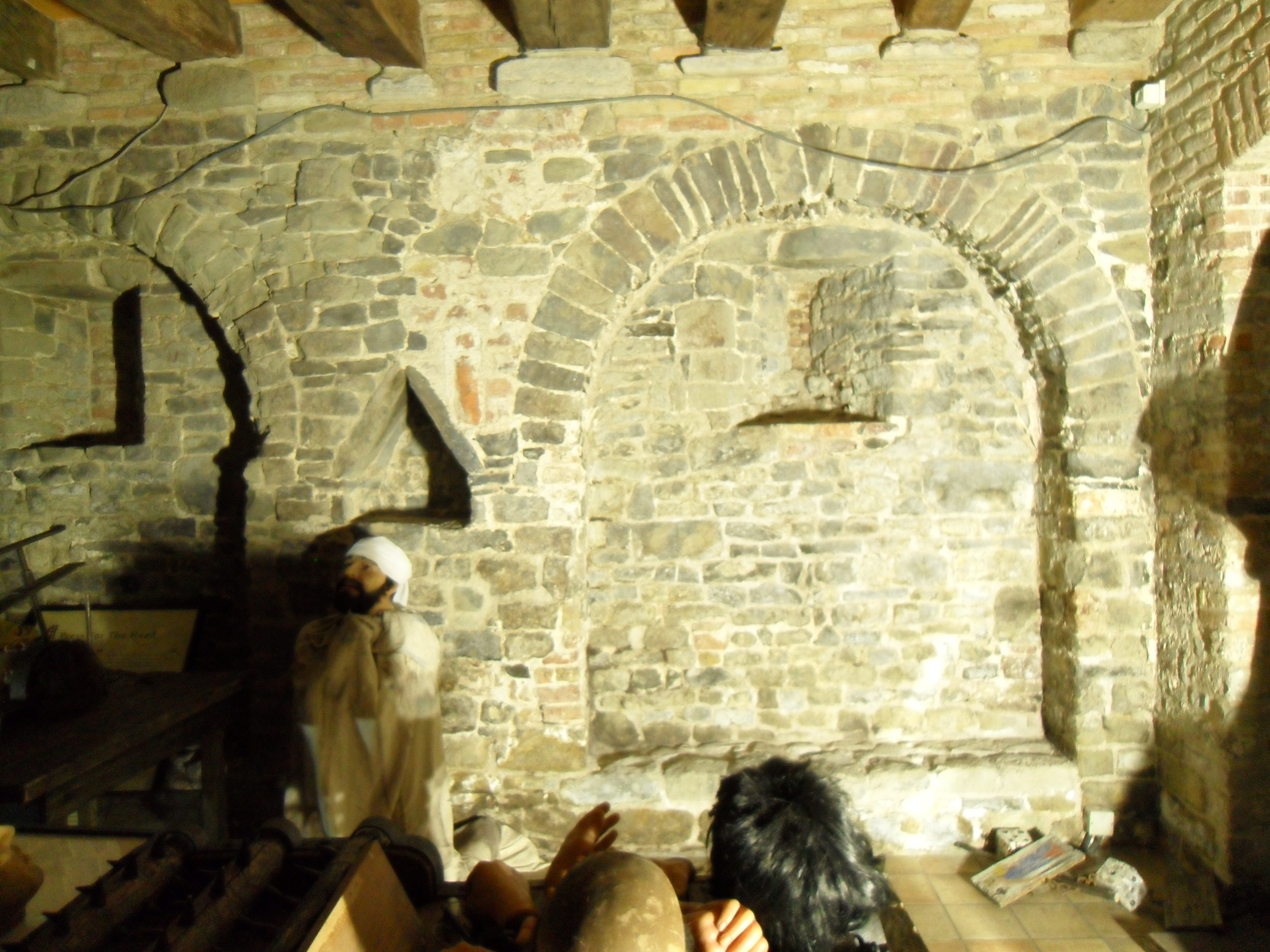 Old wall in bricks from XI-XII C.